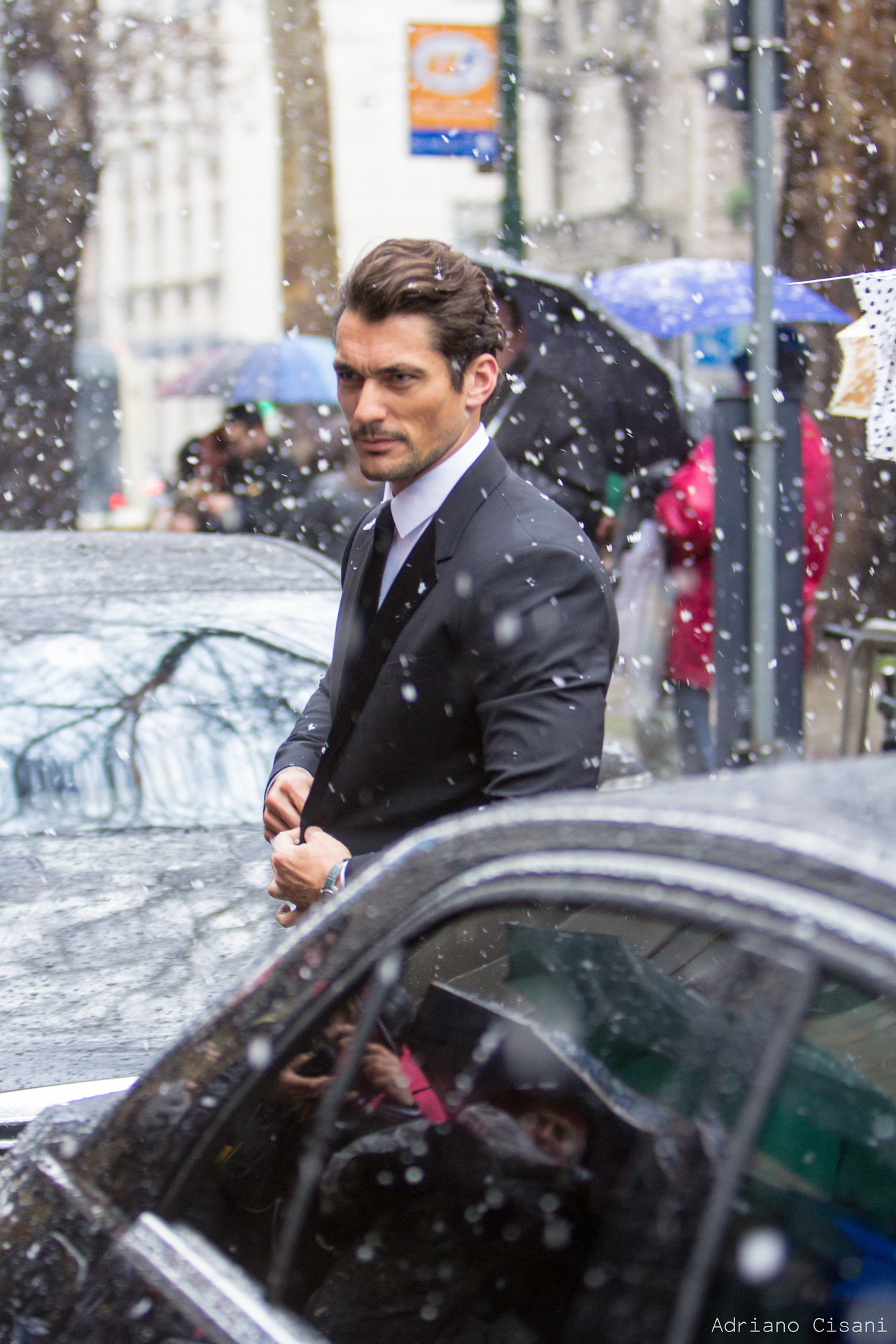 David Gandy attends the Dolce & Gabbana show during Milan Fashion Week